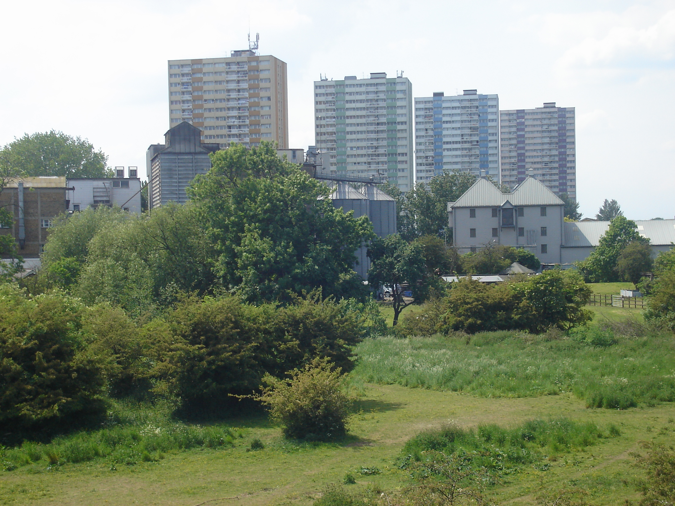 Picture of Wright's Flour Mill